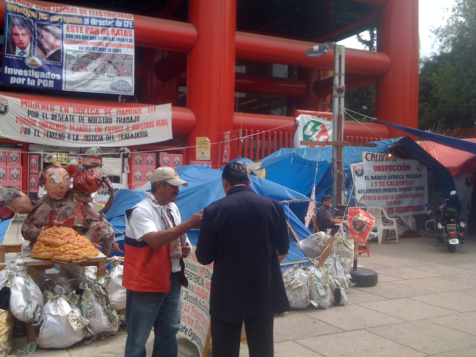 EMS strike against the installations of the CFE